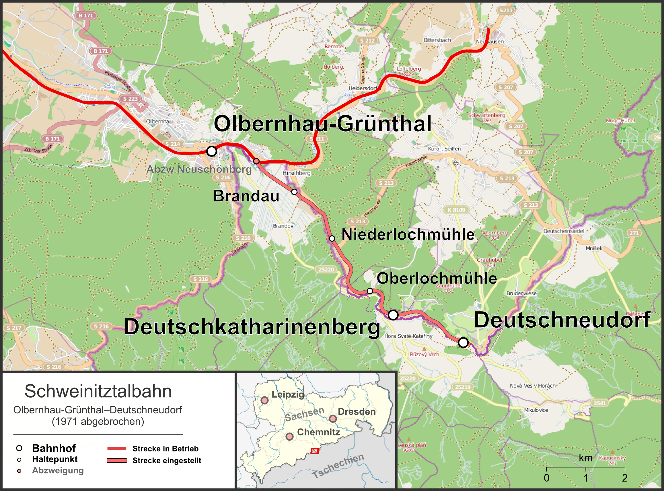 Map of railway line Olbernhau-Grünthal–Deutschneudorf Saxony and Czech Republic